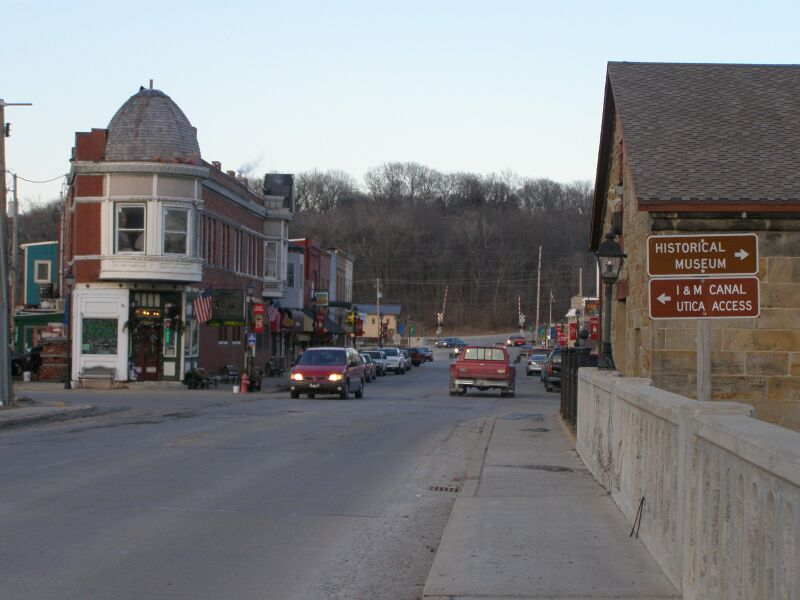 Utica: Mill Street over the Illinois and Michigan Canal at Clark Street (Illinois Route 178)